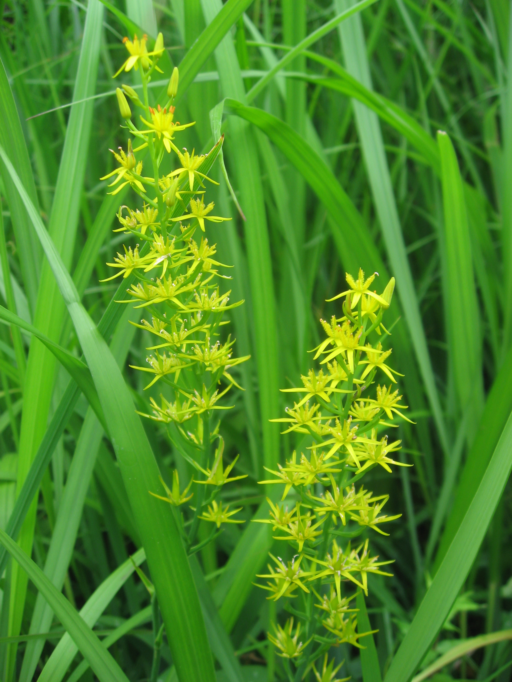 Narthecium asiaticum, Aizu area, Fukushima pref., Japan